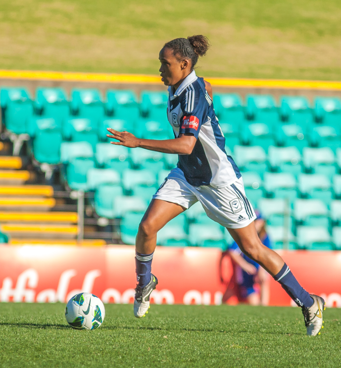 Jessica McDonald playing for the Melbourne Victory W-League team in November 2012.